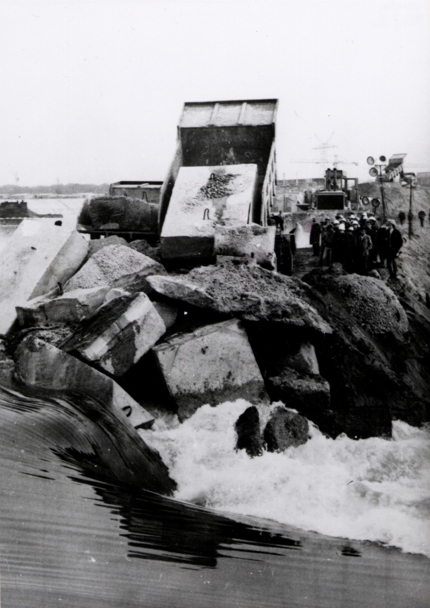 Construction of a patch, a temporary building for the rebuilding of the riverbed.